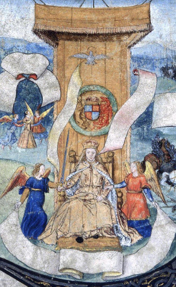 Mary on the Plea Roll, Court of King's Bench, 1553. At least theory, courts were held in the presence of the monarch, the beginning of the first roll, or record, of each law term visually depiting that presence. The image for her first law term, Michaelmas 1553, shows her borne by angels to the throne. She sits unter the dove of peace and her crowntopped royal arms while Northumberland surrenders and is led awey on the lower right.